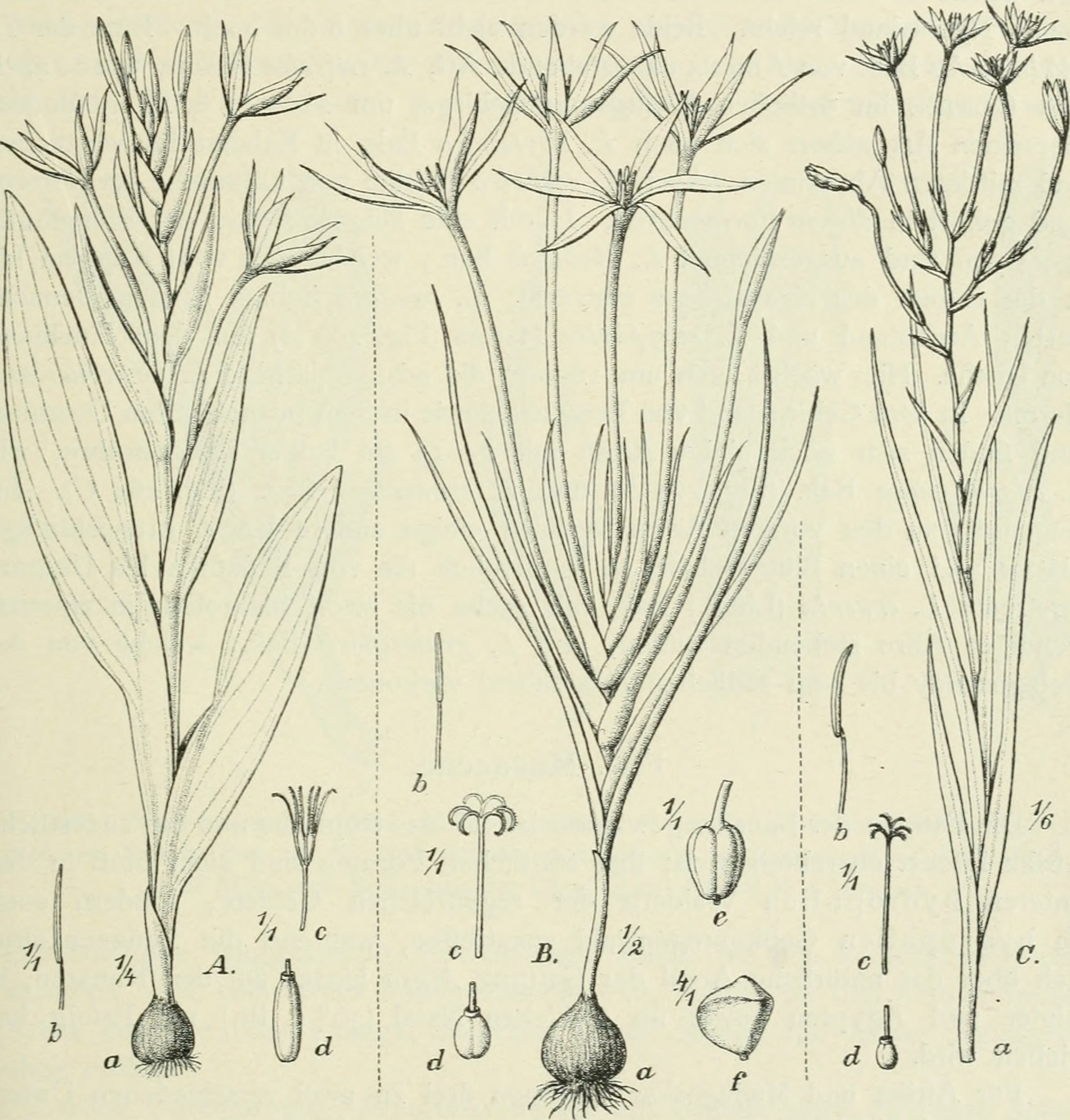 Title: Die Pflanzenwelt Afrikas, insbesondere seiner tropischen Gebiete : Grundzge der Pflanzenverbreitung im Afrika und die Charakterpflanzen Afrikas Year: 1910 (1910s) Authors: Engler, Adolf, 1844-1930 Subjects: Botany Publisher: Leipzig : W. Engelman Text Appearing Before Image: Liliiflorae. — Iridaceae. 375 Watsonieae. Micranthus Pers. (zwei Arten) und Freesia Klatt mit einer sehr veränder- lichen Art) sind auf das südliche Kapland beschränkt. Watsonia Miller. Zwiebelgewächse mit starren, schwertförmigen Blättern und meist ansehnlichen, meist leuchtend roten, in einfachen oder verzweigten Text Appearing After Image: Fig. 264. A Lapeyrousia eun-phylla Harms 'Iringa. in Uhehe. um 1500 m ü. M.). B L. odora- tissima Bak. Benguela und UheheJ. C I.. cyanescens Bak. (Benguela). — Original. Ähren stehenden Blüten. Bis Transvaal dringt vor: W. rosea Ker mit fast 2 m langem Stengel und bis i m langen Blättern: ferner ((' Merianail^.) Mill. mit etwa 1 m langem Stengel und rosafarbenen Blüten, deren Röhre länger ist als bei der vorigen; sie kommt auch im westlichen Natal um 1500 m vor. Sodann ist \V. dcnsiflora Bak. in Natal. Transvaal und dem Oranje-Freistaat